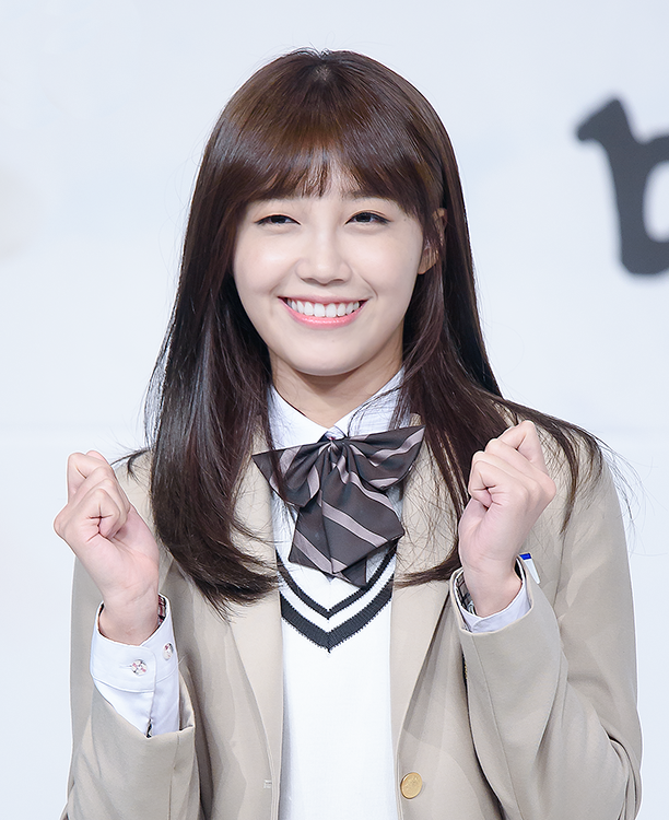 Jung Eun-ji at "Sassy Go Go" press conference, 2 October 2015